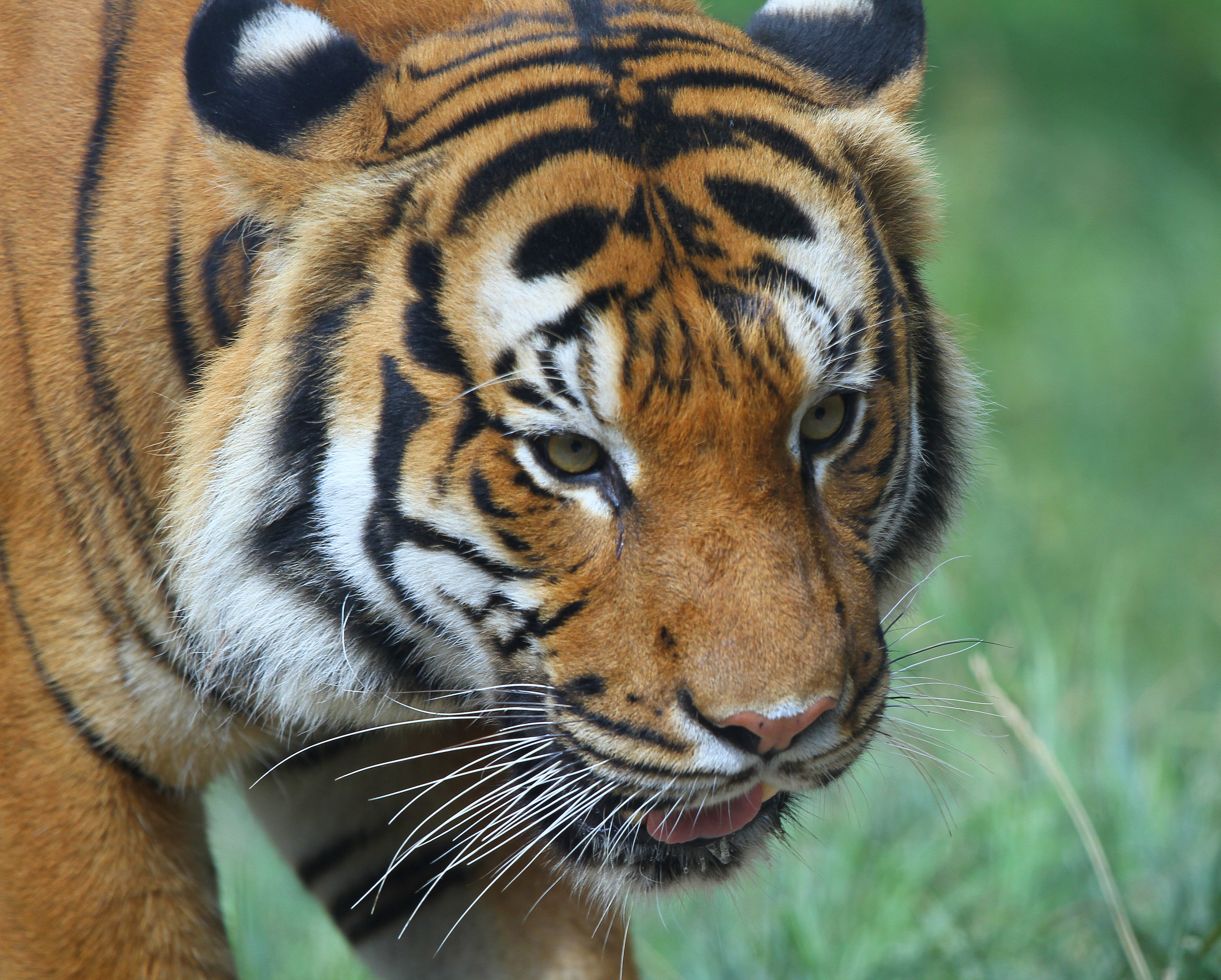 Malayan Tiger - taken at the Cincinnati Zoo and Botanical Garden.